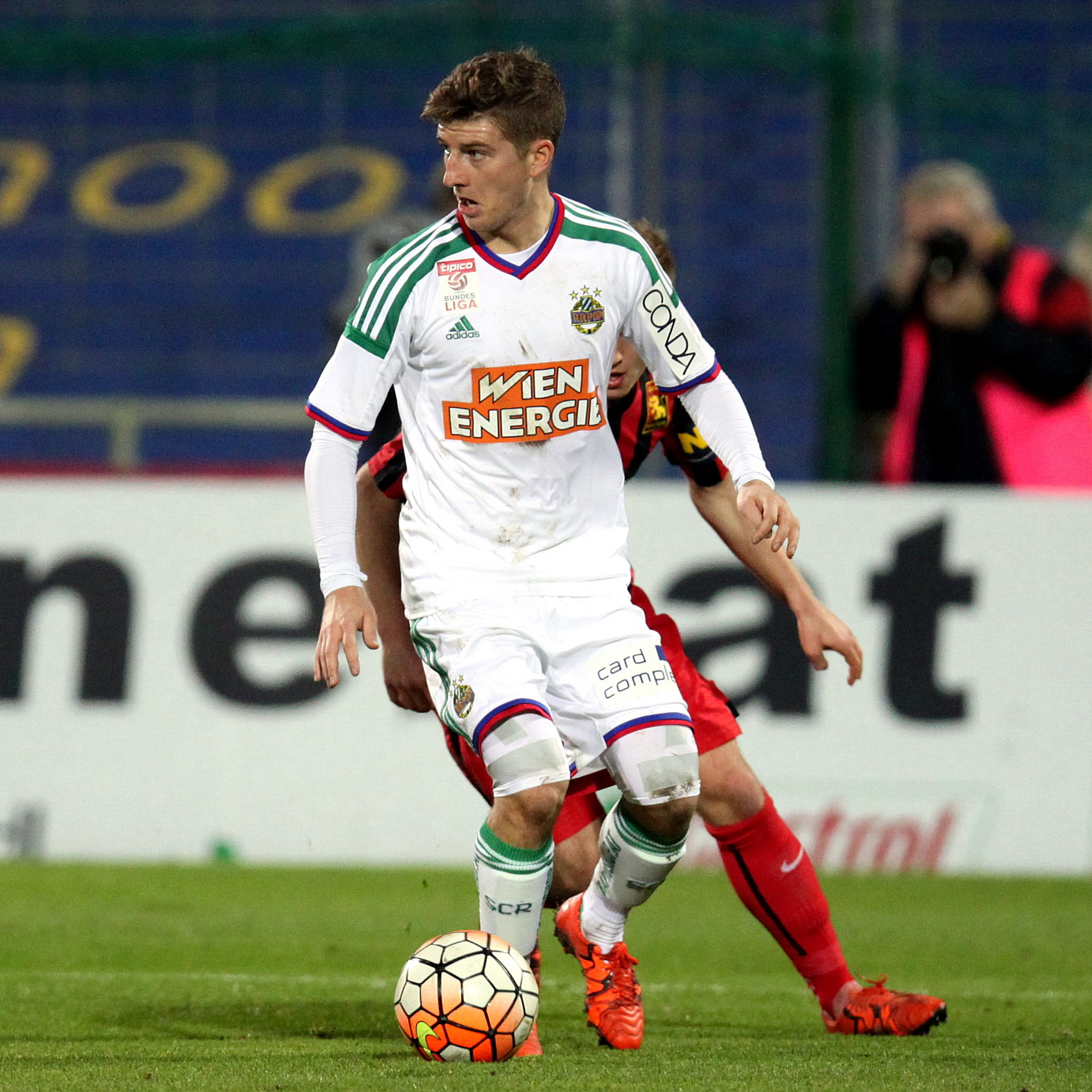 Match of the Austrian Football Bundesliga – FC Admira Wacker Mödling (red shirts) vs. SK Rapid Wien (white shirts) 2-1 (0-1) on 2015-12-02 in Bundesstadion Sudstadt – The photo shows Stephan Auer.